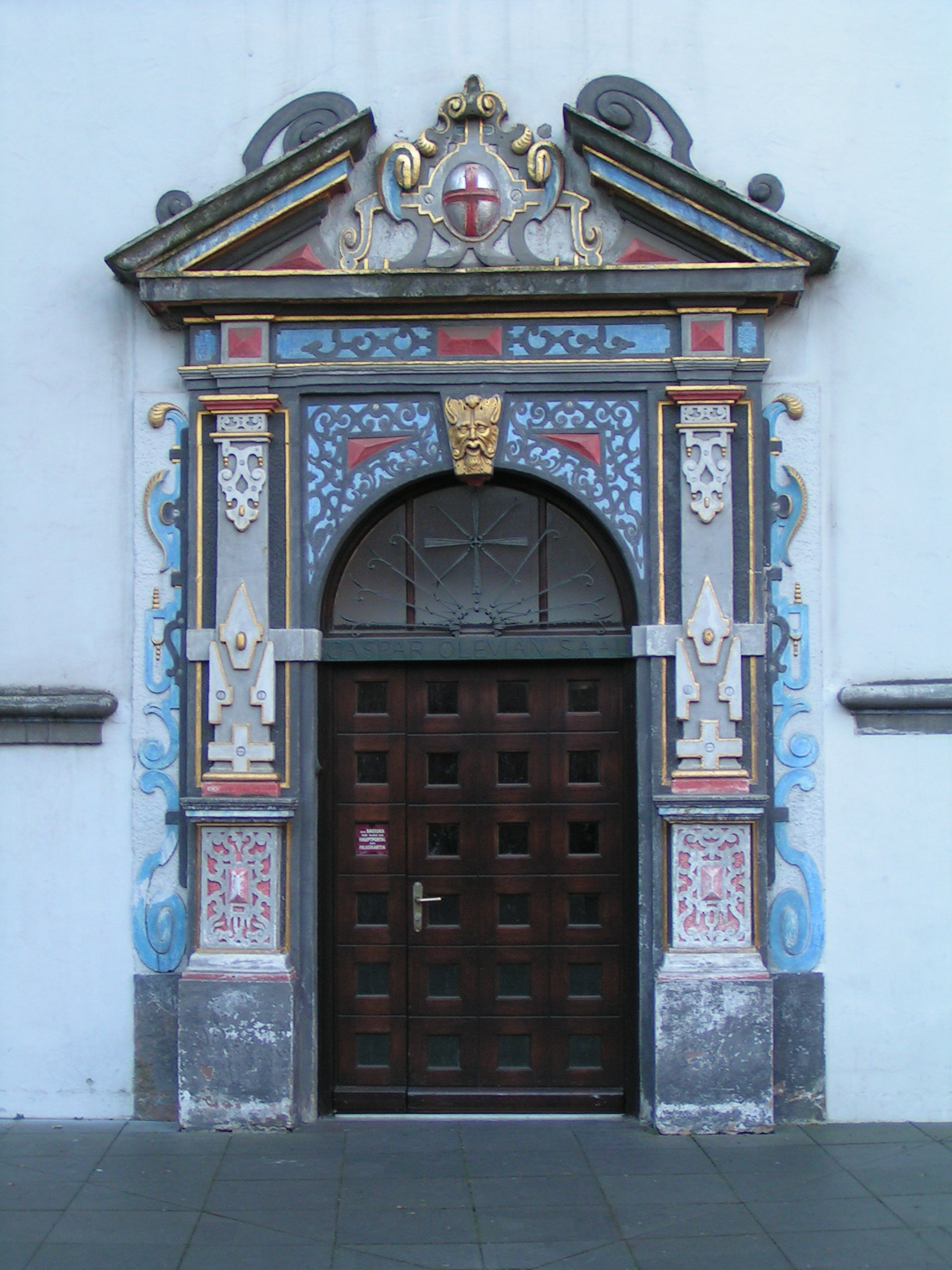 Kurfürstliches Palais, Trier, Germany.